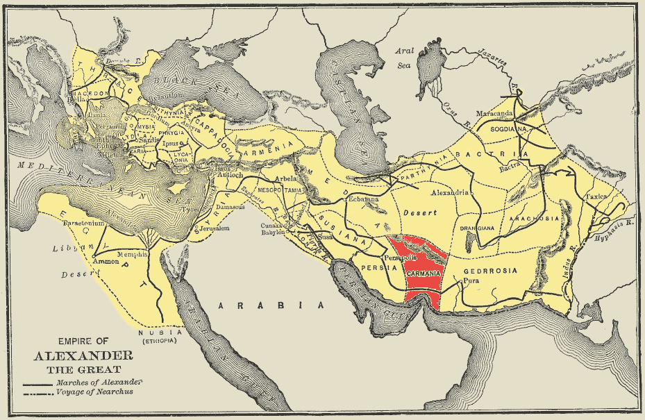 The area of Karmania in a map of the empire of Alexander the Great shortly after acquiring the Persian Empire.